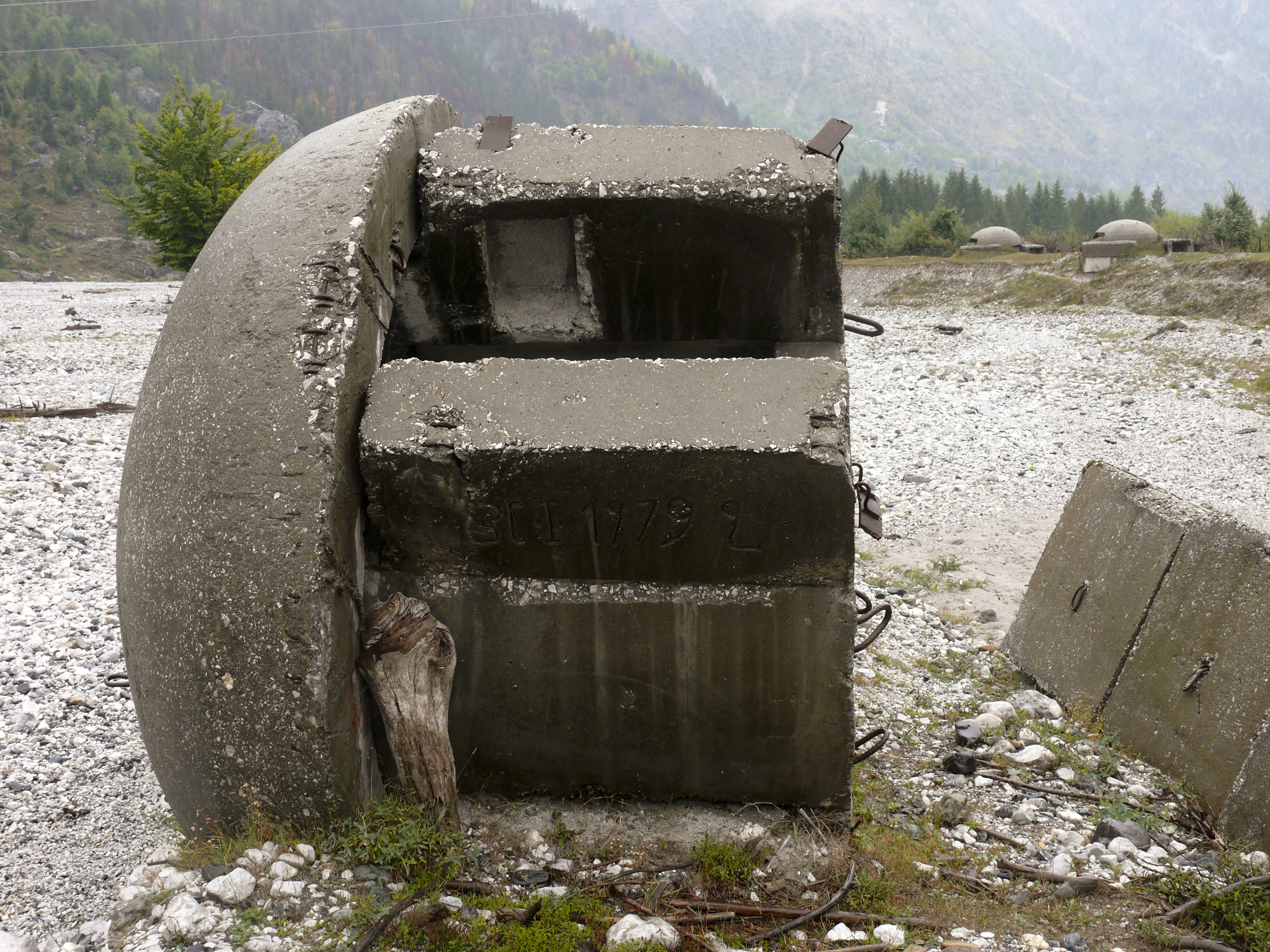 Bunker destroyed by river Valbona